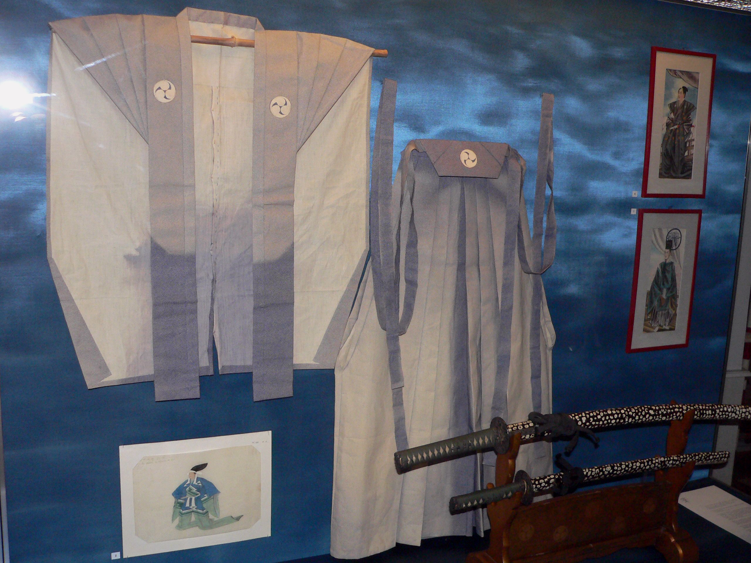 An Edo-era kamishimo outfit, consisting of a kataginu (a sleeveless jacket with exaggerated shoulders) (left) and hakama (centre). This was typical formal attire for samurai and court men in the Edo period.